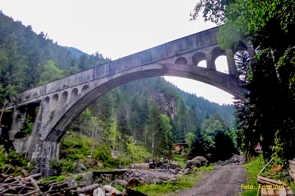 Reservoir Wangen South Tyrol; Water intake; Tanzbachtal